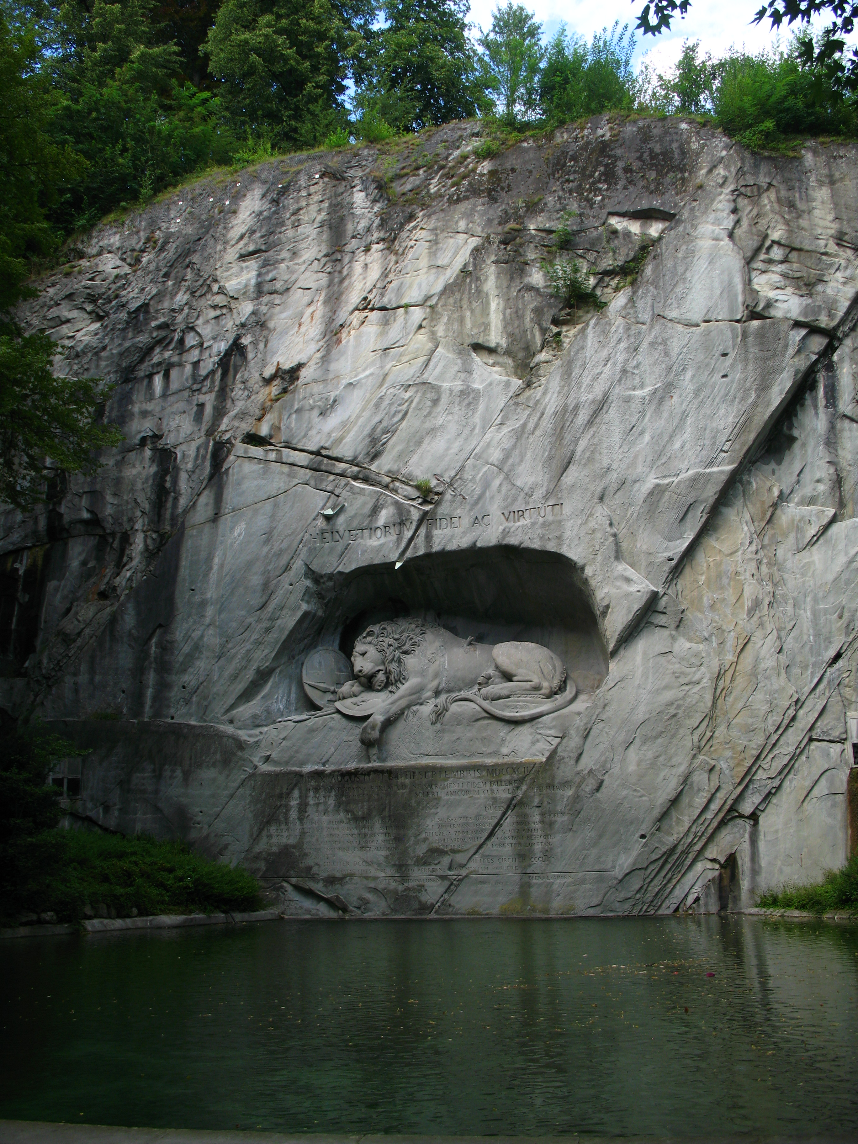 Lion Monument, Luzern, Switzerland